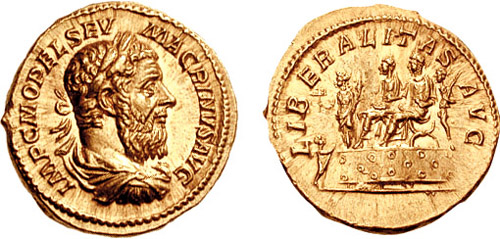 Macrinus. 217-218 AD. AV Aureus (7.51 gm, 6h). Struck 218 AD. IMP C M OPEL SEV MACRINVS AVG, laureate, draped, and cuirassed bust right, wearing long beard, seen from behind LIB-ERALITAS AVG, Diadumenian, bare-headed and togate, and Macrinus, laureate and togate, seated left on curule chairs set on low daïs, each extending right hand to small figure climbing stairs holding out fold of toga to receive tessera; Liberalitas standing left, holding abacus in right hand and cornucopia in left hand at fore-edge of daïs; lictor standing behind imperial pair, holding fasces. RIC IV 79; Clay Issue 3; BMCRE 71; Calicó 2947; Cohen 43.